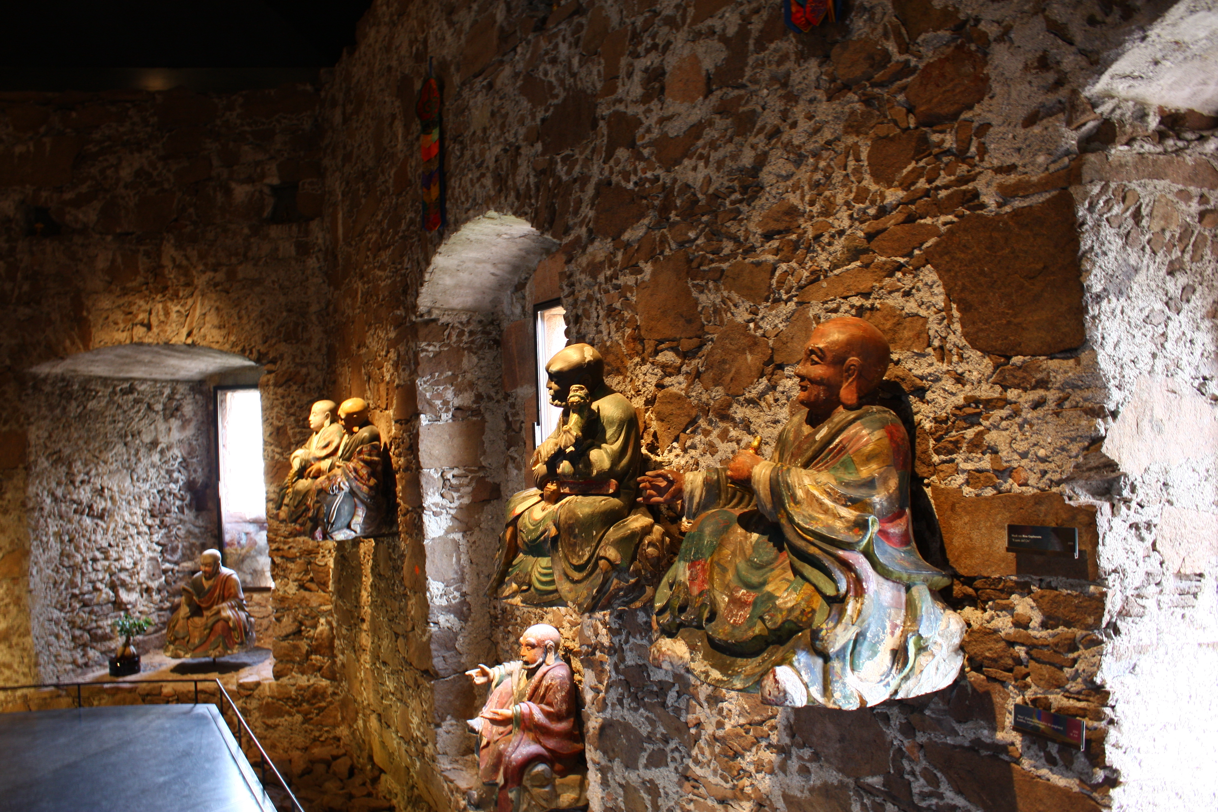 Castle Sigmundskron (Firmian), Bozen, South Tyrol